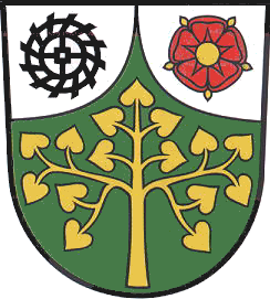 Coat of Arms of Sachsenbrunn